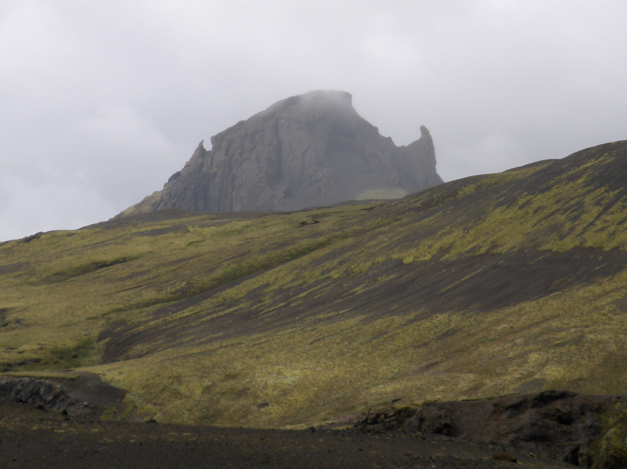 Description Einhyrningur GFDL own work Einhyrningur